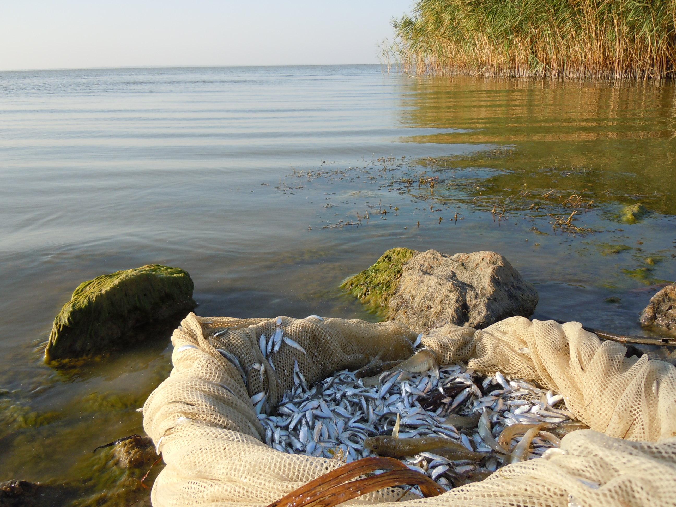 Fish catchment in the Sasyk Lagoon, Odessa Oblast, Ukraine